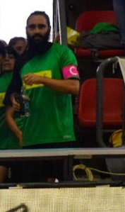 Former Argentinian football player, Juan Pablo Sorín.